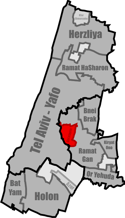 Location of Giv'atayim within the Tel Aviv District.